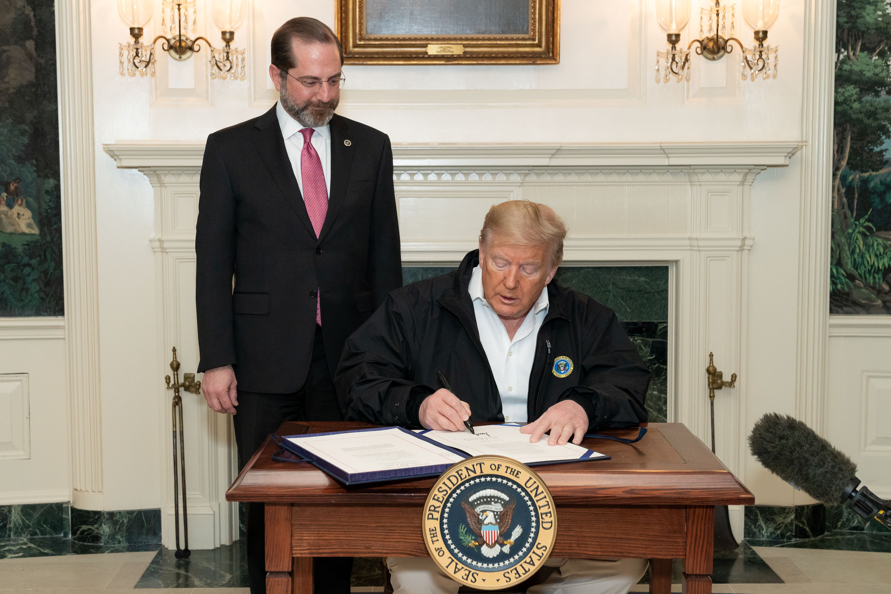 President Donald J. Trump, joined by Secretary of Health and Human Services Alex Azar, signs the congressional funding bill for coronavirus response Friday, March 6, 2020, in the Diplomatic Reception Room of the White House. (Official White House Photo by Tia Dufour)